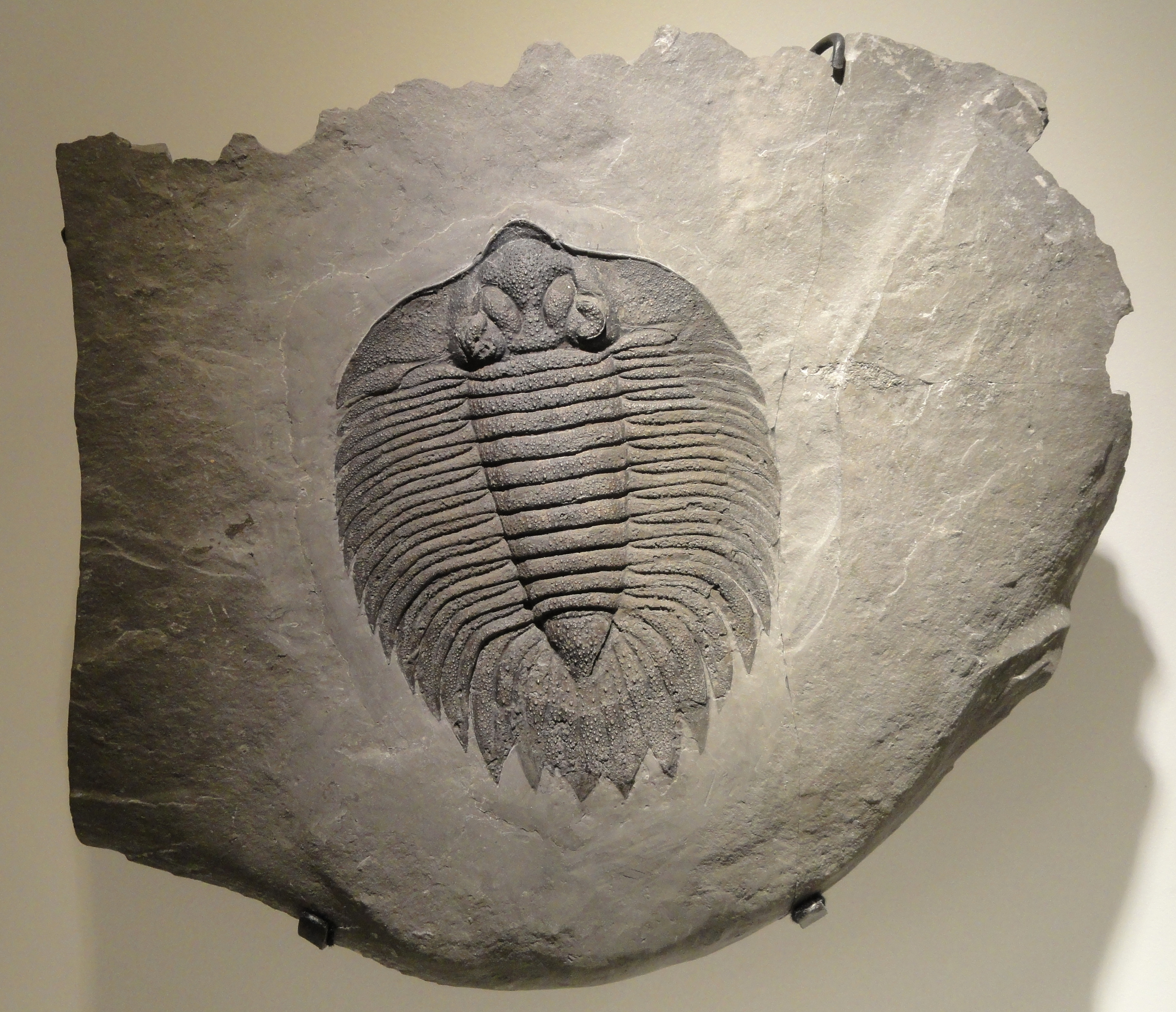 Exhibit in the Houston Museum of Natural Science, Houston, Texas, USA.